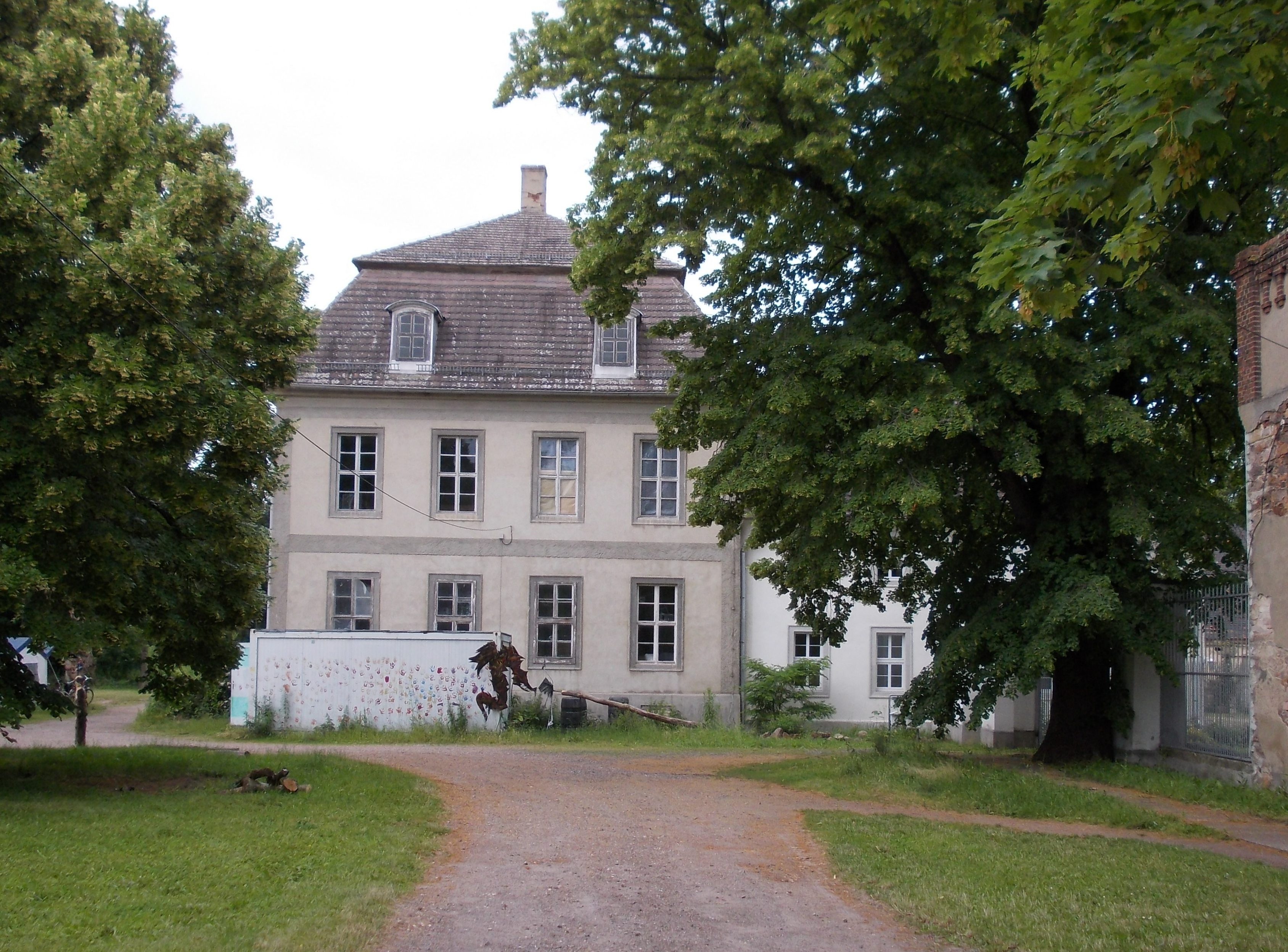 Quetz manor house (Quetzdölsdorf subdivision of the town of Zörbig, Anhalt-Bitterfeld district, Saxony-Anhalt)